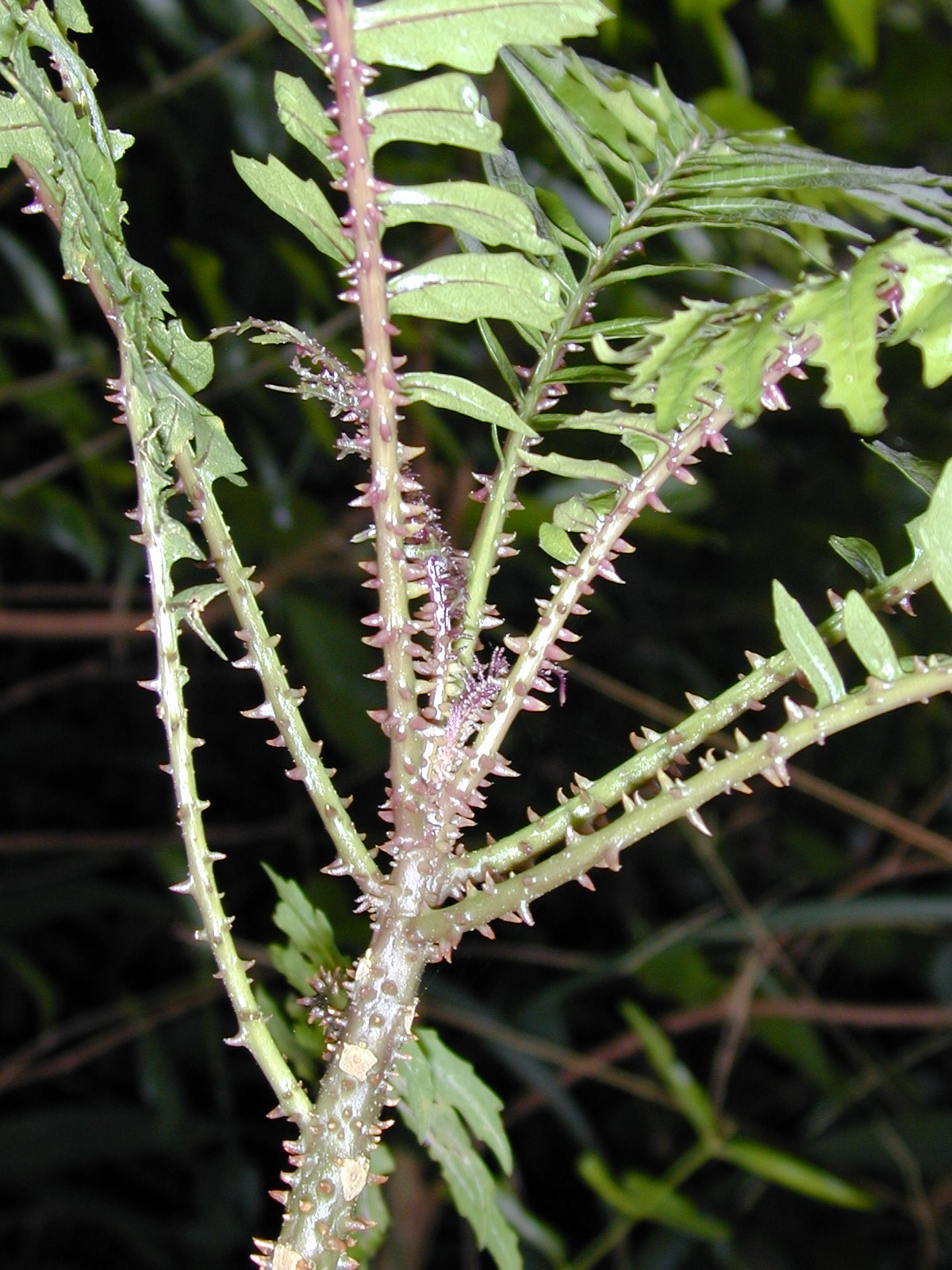 Cyanea asplenifolia (stems). Location: Maui, Makawao Forest Reserve